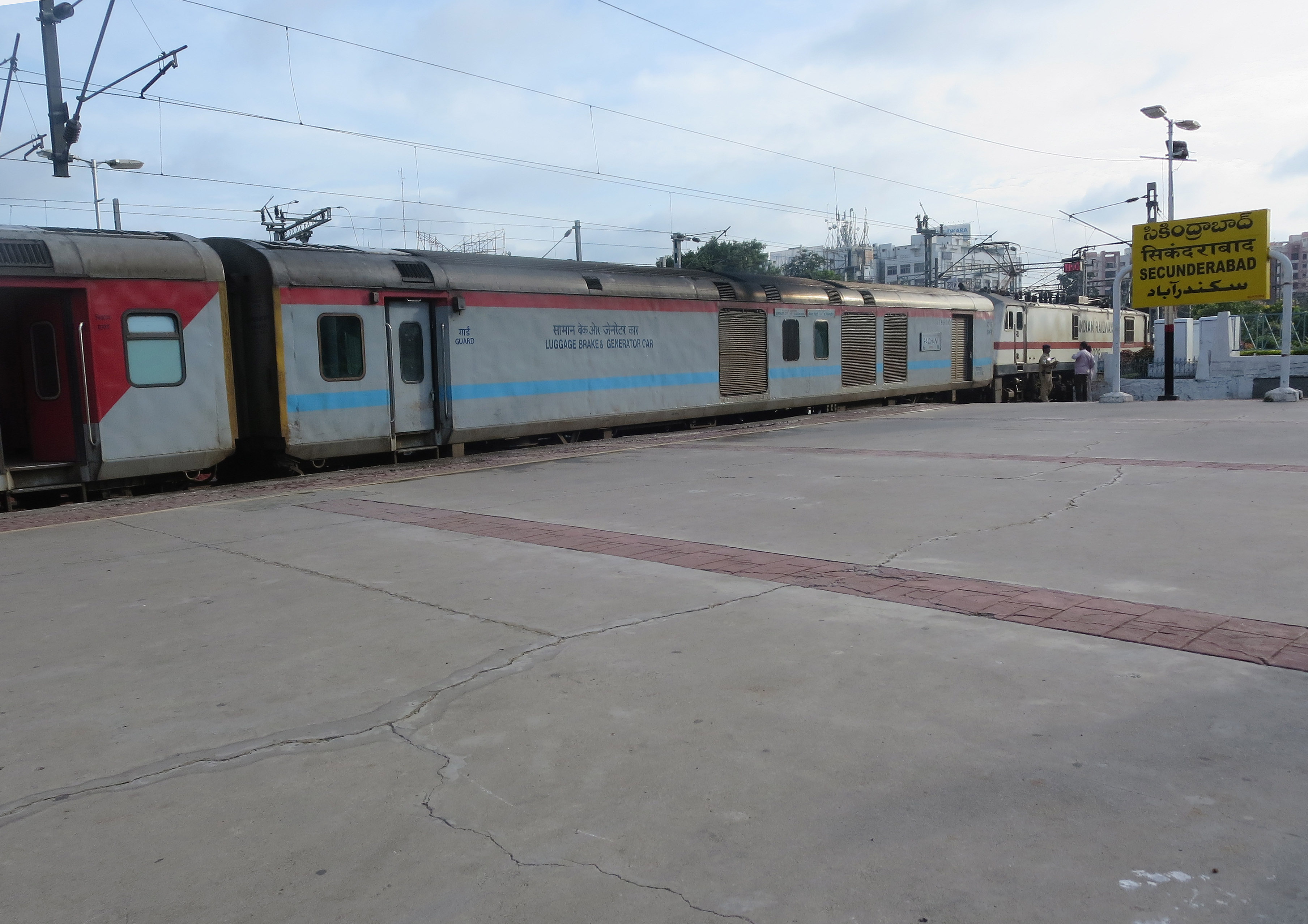 Bangalore City to Hazrat Nizamuddin Rajdhani Express about to be hauled by LGD based WAP 7 from Secunderabad Junction